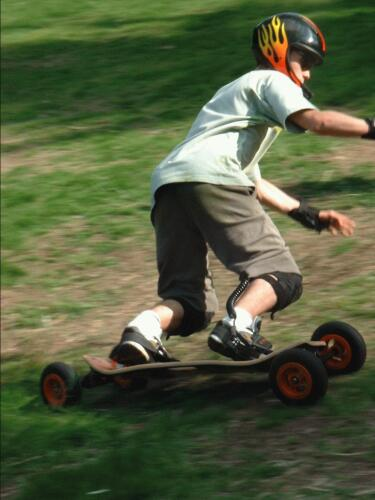 Mountainboard, front slide